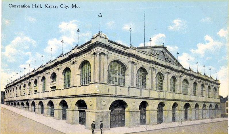 Convention Hall in Kansas City from a 1908 postcard.